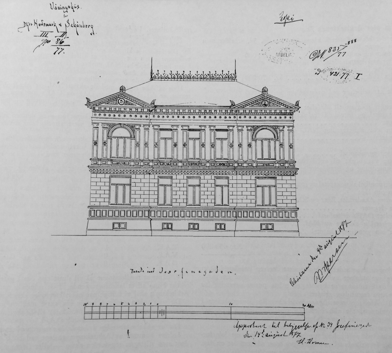 Facade drawing of a "Arkitektenes hus", a building dating from 1877, in Oslo, Norway (Josefines gate 34)